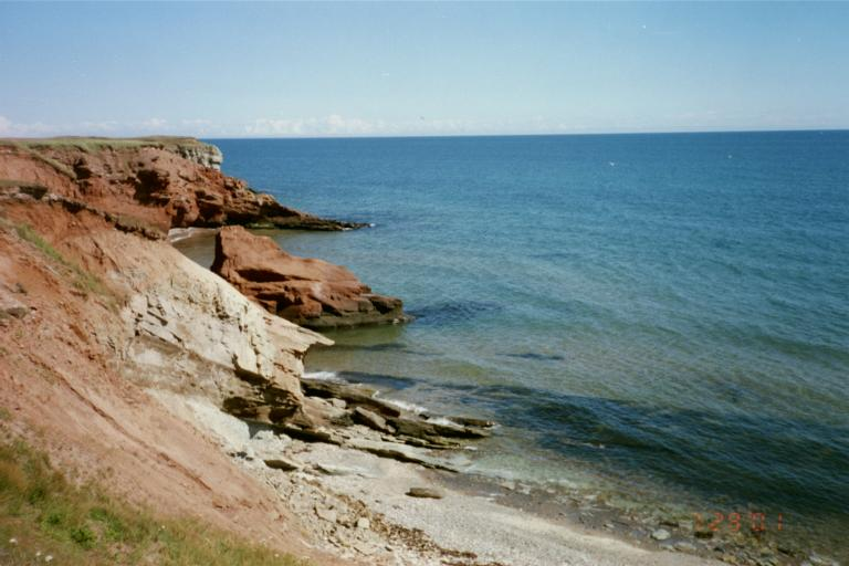 A sandstone cliff on the Magdalen Islands.